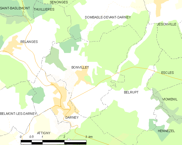 Map of French municipality Bonvillet